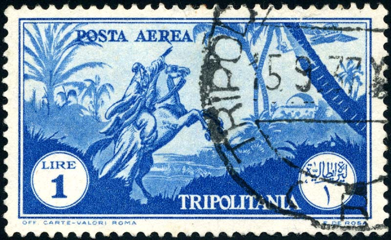 Scan of Italian colonlal Libya, Tripolitania, 1-lira airmail stamp of 1931, made by User:Stan Shebs